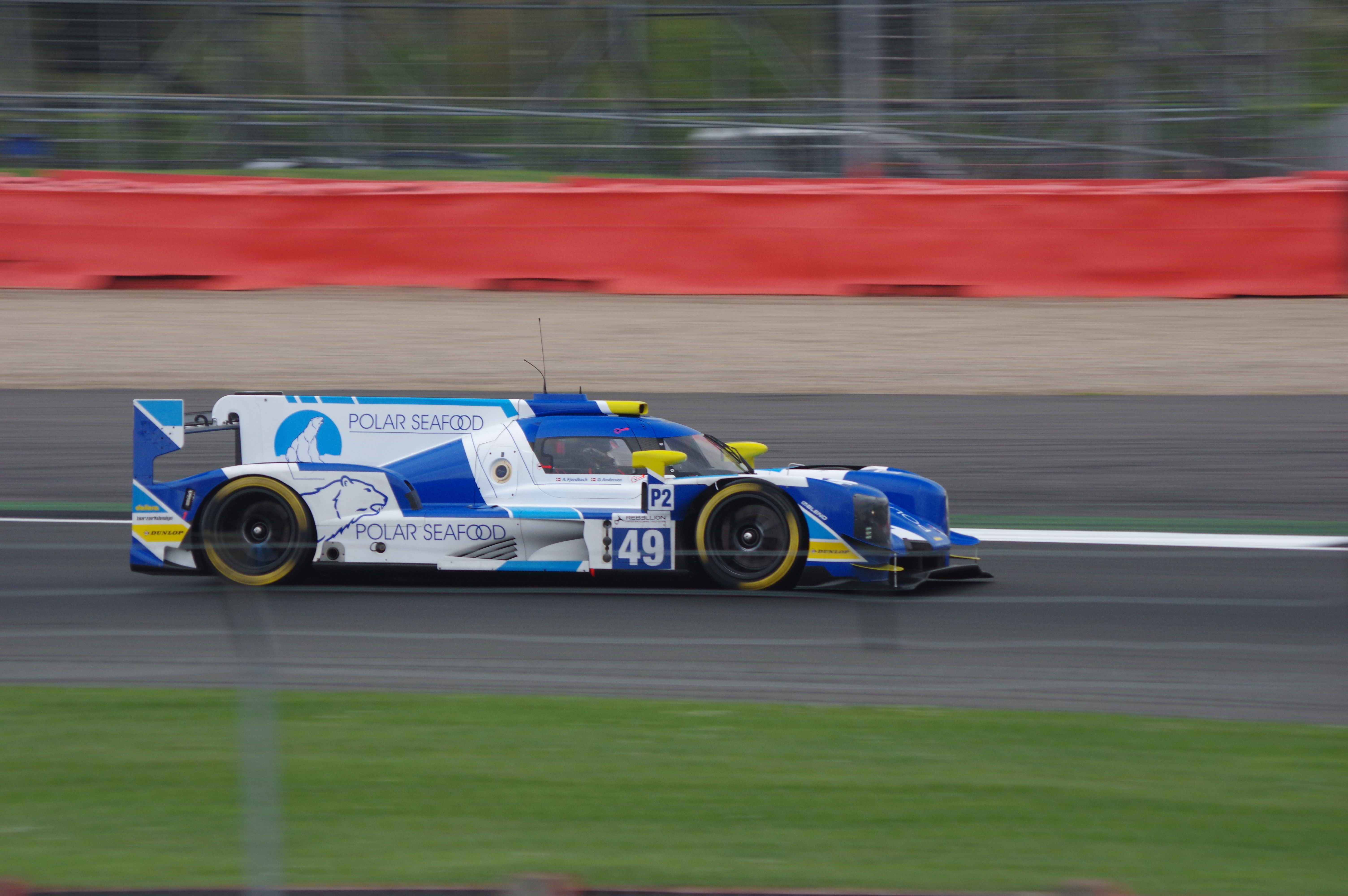 High Class Racing's Dallara P217 Gibson n°49 driven by Dennis Andersen and Anders Fjordbach